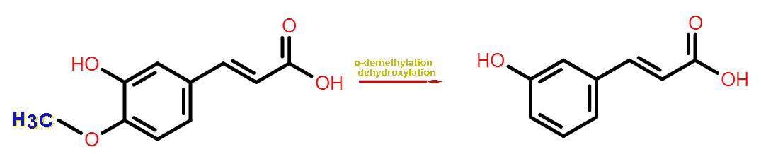 M-coumaric acid synthesis by o-demethylation and dehydroxylation of isoferulic acid